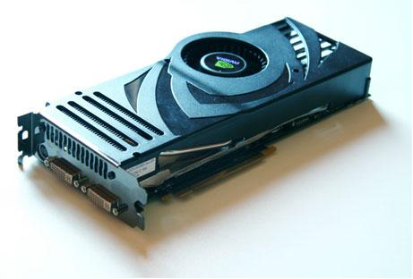 Geforce 8800Ultra